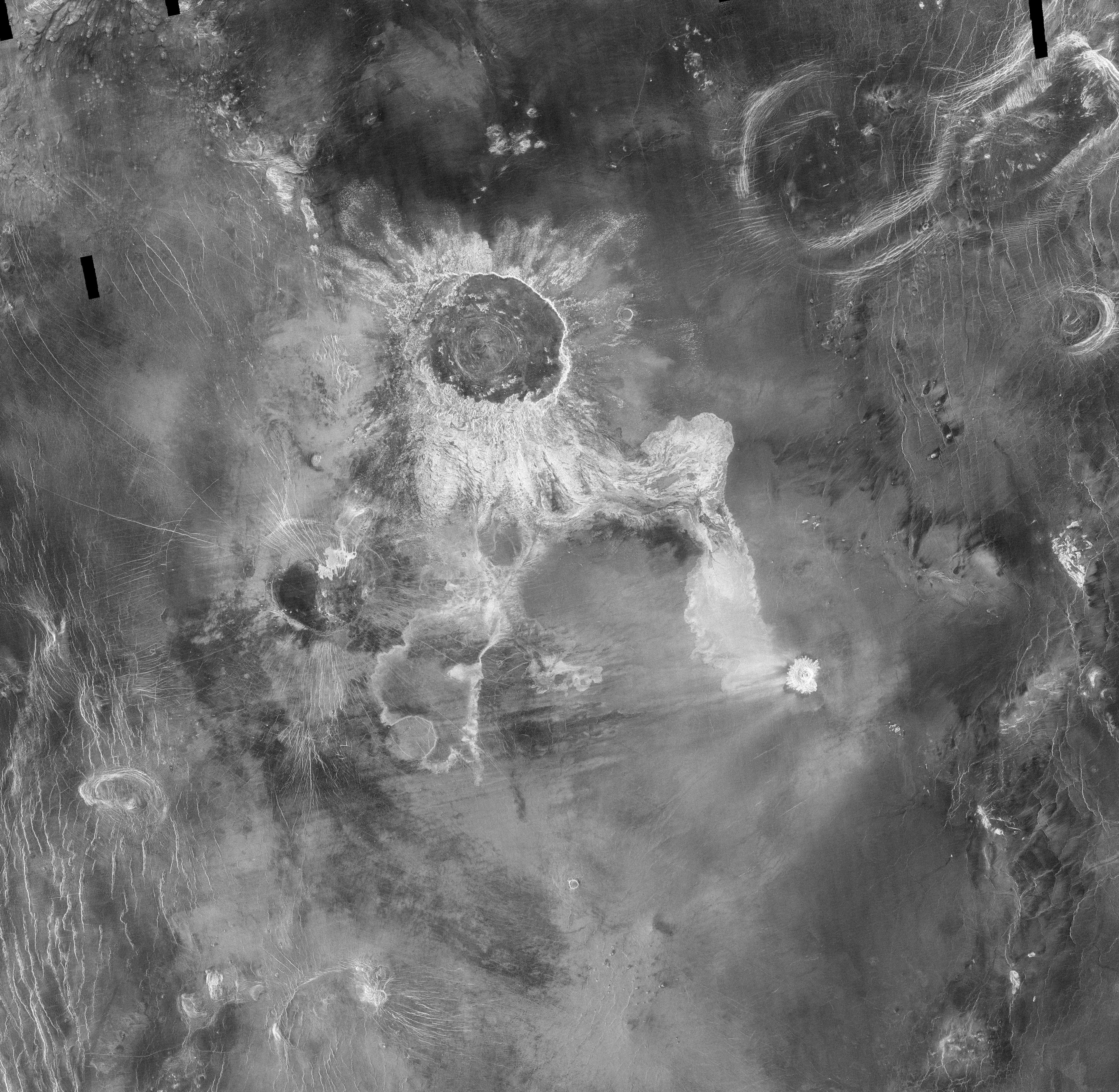 Crater Isabella, with a diameter of 175 kilometers (108 miles), seen in this Magellan radar image, is the second largest impact crater on Venus. The feature is named in honor of the 15th Century queen of Spain, Isabella of Castile. Located at 30 degrees south latitude, 204 degrees east longitude, the crater has two extensive flow-like structures extending to the south and to the southeast. The end of the southern flow partially surrounds a pre-existing 40 kilometer (25 mile) circular volcanic shield. The southeastern flow shows a complex pattern of channels and flow lobes, and is overlain at its southeastern tip by deposits from a later 20 kilometer (12 mile) diameter impact crater, Cohn (for Carola Cohn, Australian artist, 1892-1964). The extensive flows, unique to Venusian impact craters, are a continuing subject of study for a number of planetary scientists. It is thought that the flows may consist of 'impact melt,' rock melted by the intense heat released in the impact explosion. An alternate hypothesis invokes 'debris flows,' which may consist of clouds of hot gases and both melted and solid rock fragments that race across the landscape during the impact event. That type of emplacement process is similar to that which occurs in violent eruptions on Earth, such as the 1991 Mount Pinatubo eruption in the Philippines.